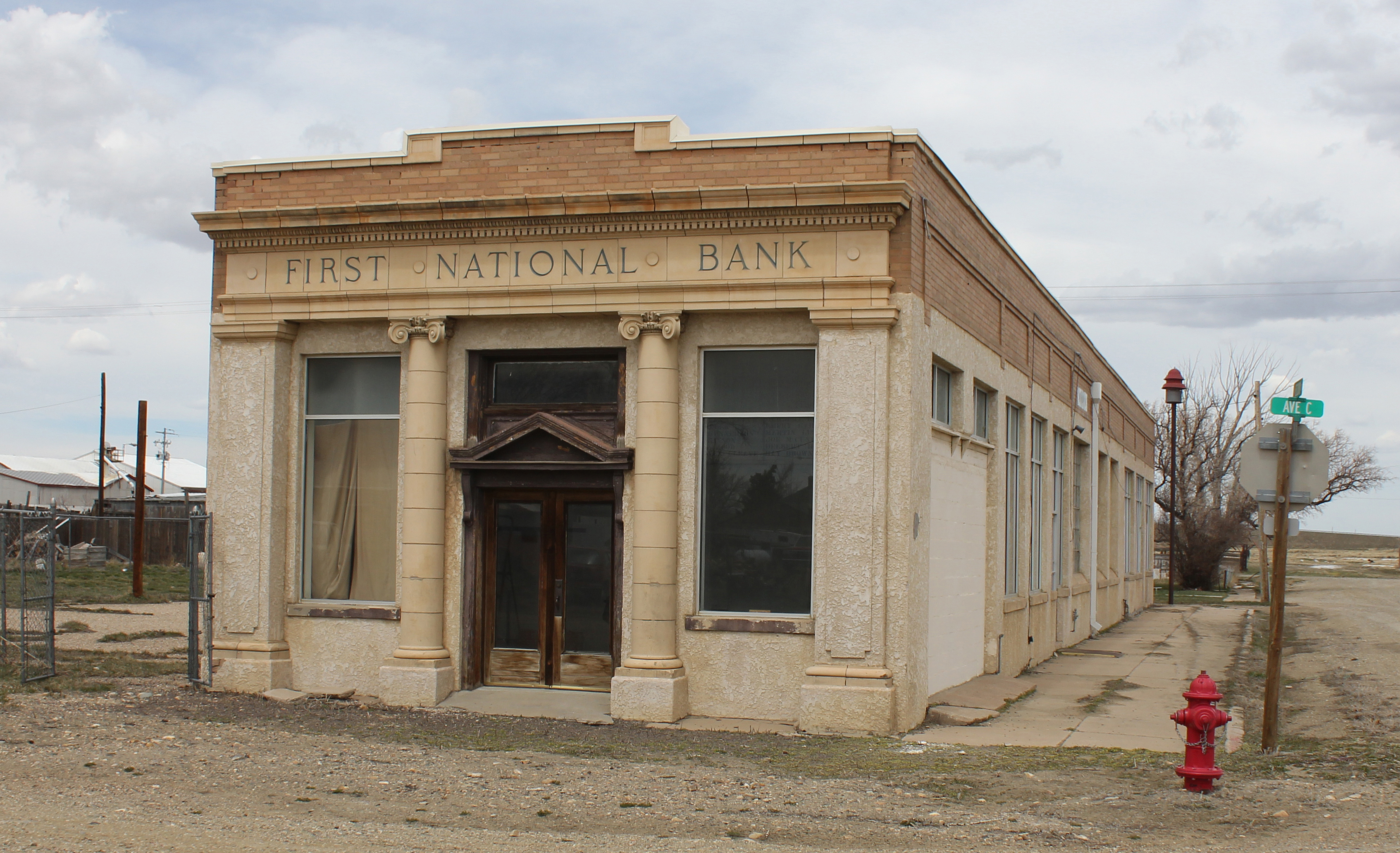 The First National Bank of Rock River, located at 131 Avenue C in Rock River, Wyoming. The property is listed on the National Register of Historic Places.